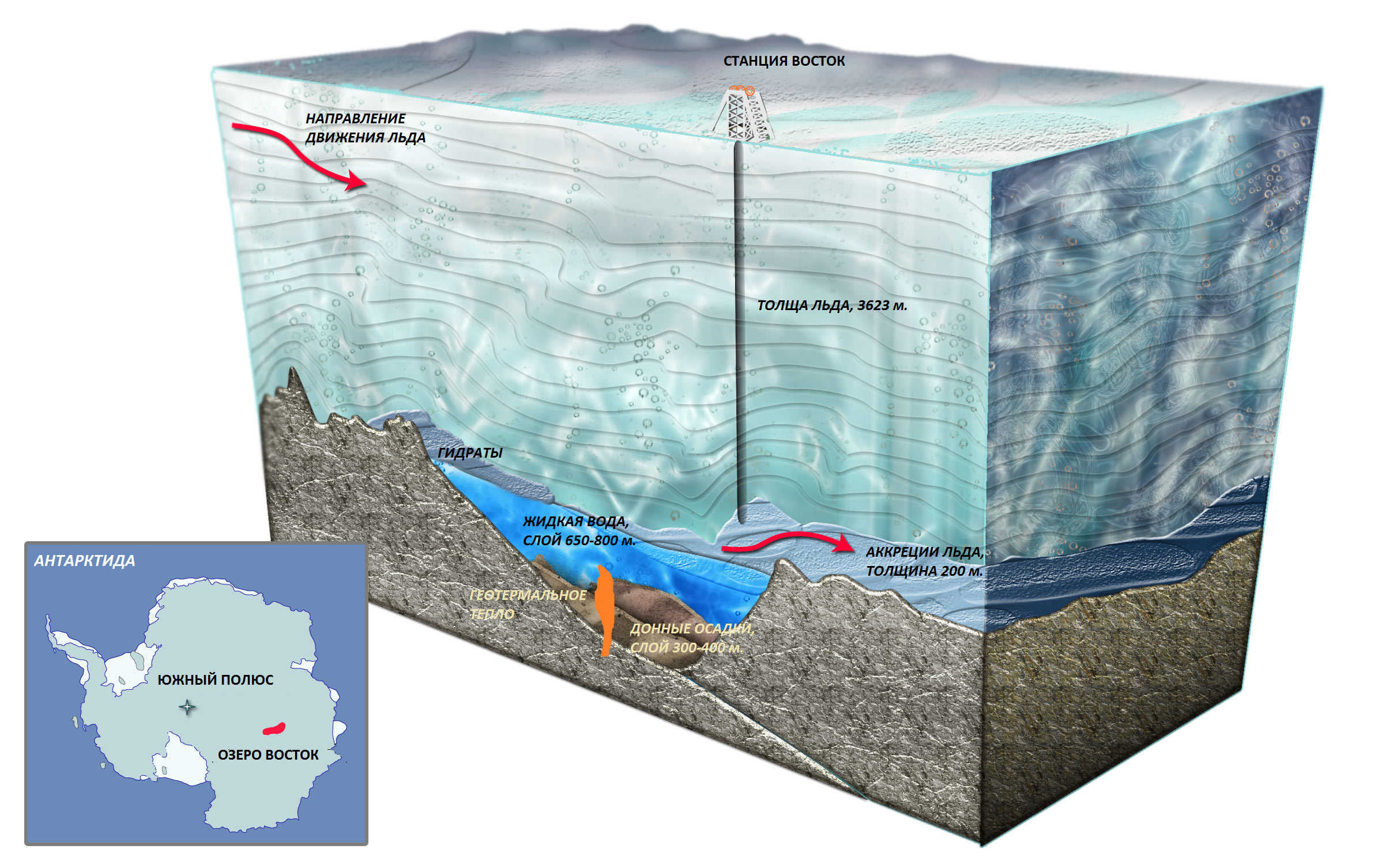 Lake Vostok drill 2011